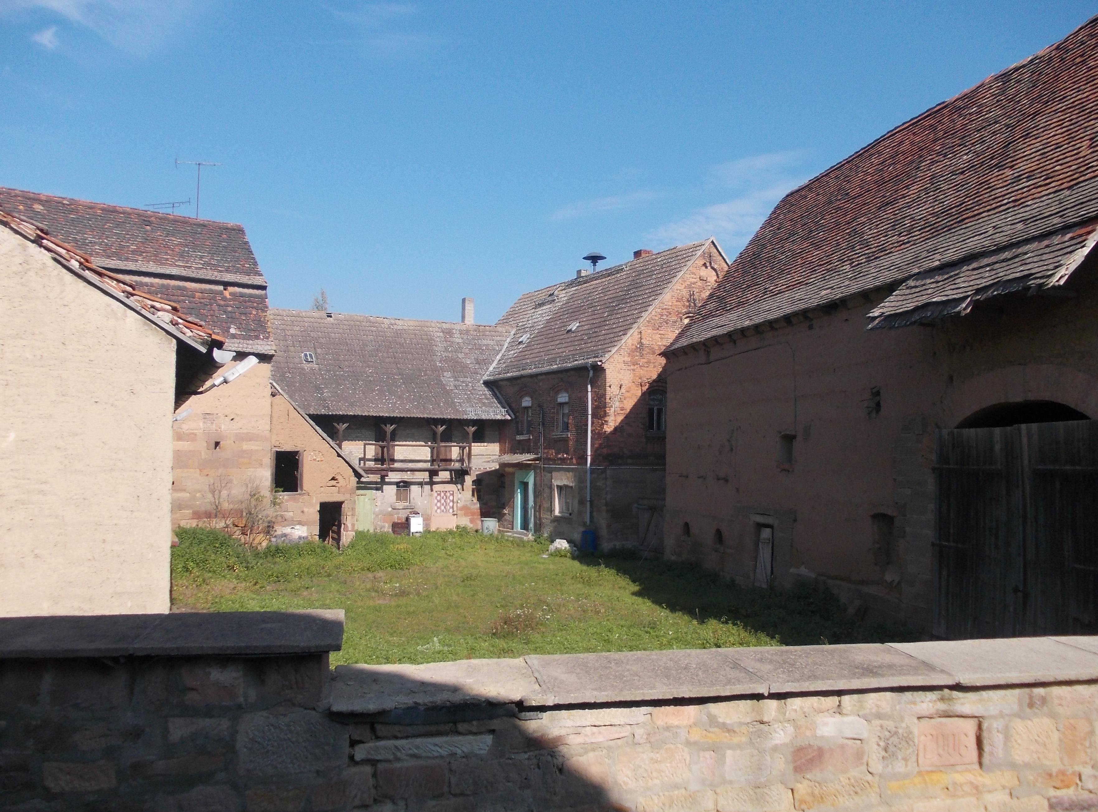 No. 6, Ringstrasse in Grockstädt (Querfurt, district: Saalekreis, Saxony-Anhalt)